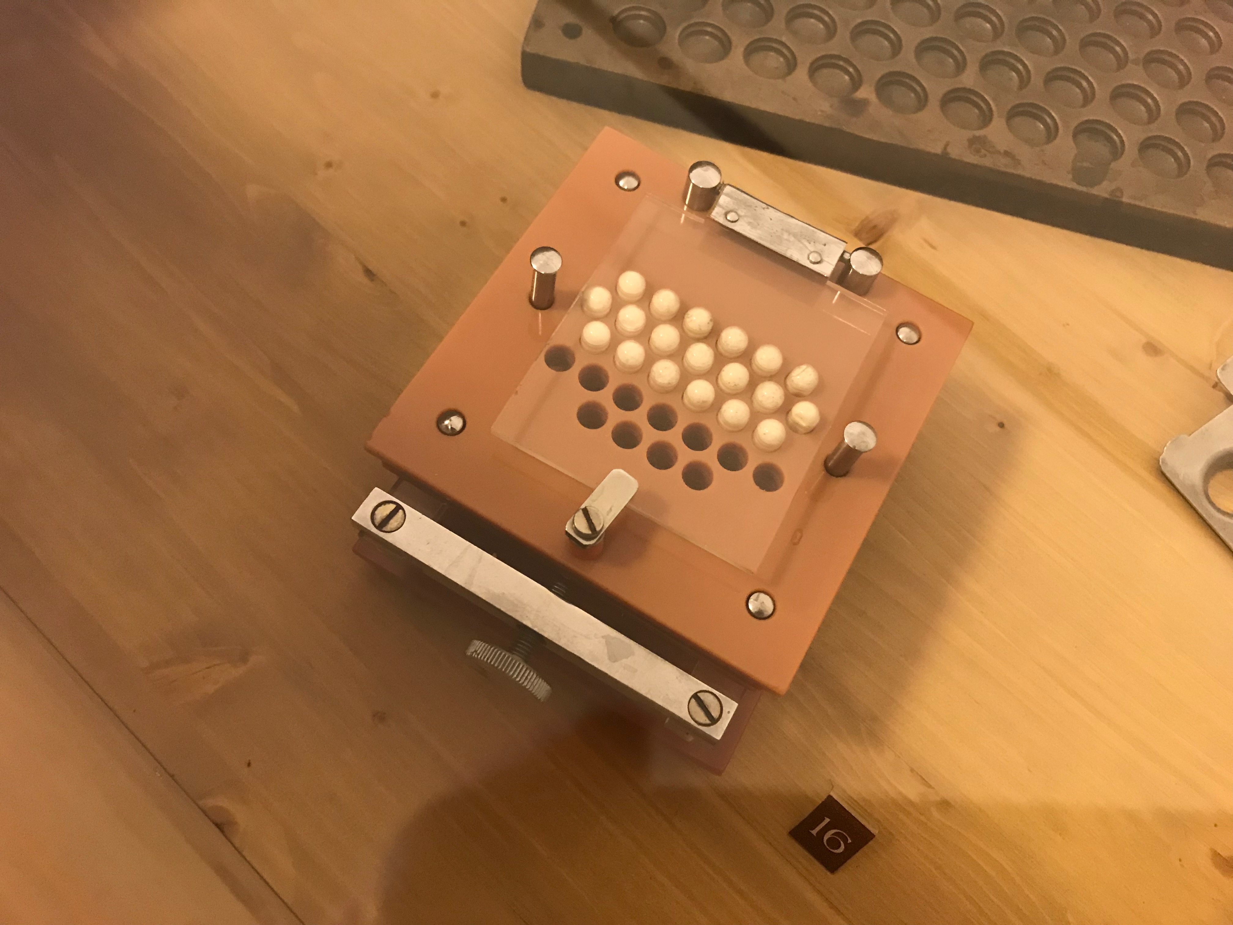 Hand machine capsule closer machine in exposition History of making of drugs in Kuks Hospital in Kuks, Trutnov District